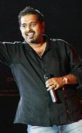 Shankar Mahadevan plays at the Shankar Eshaan Loy Nite on the steps of the Asiatic.